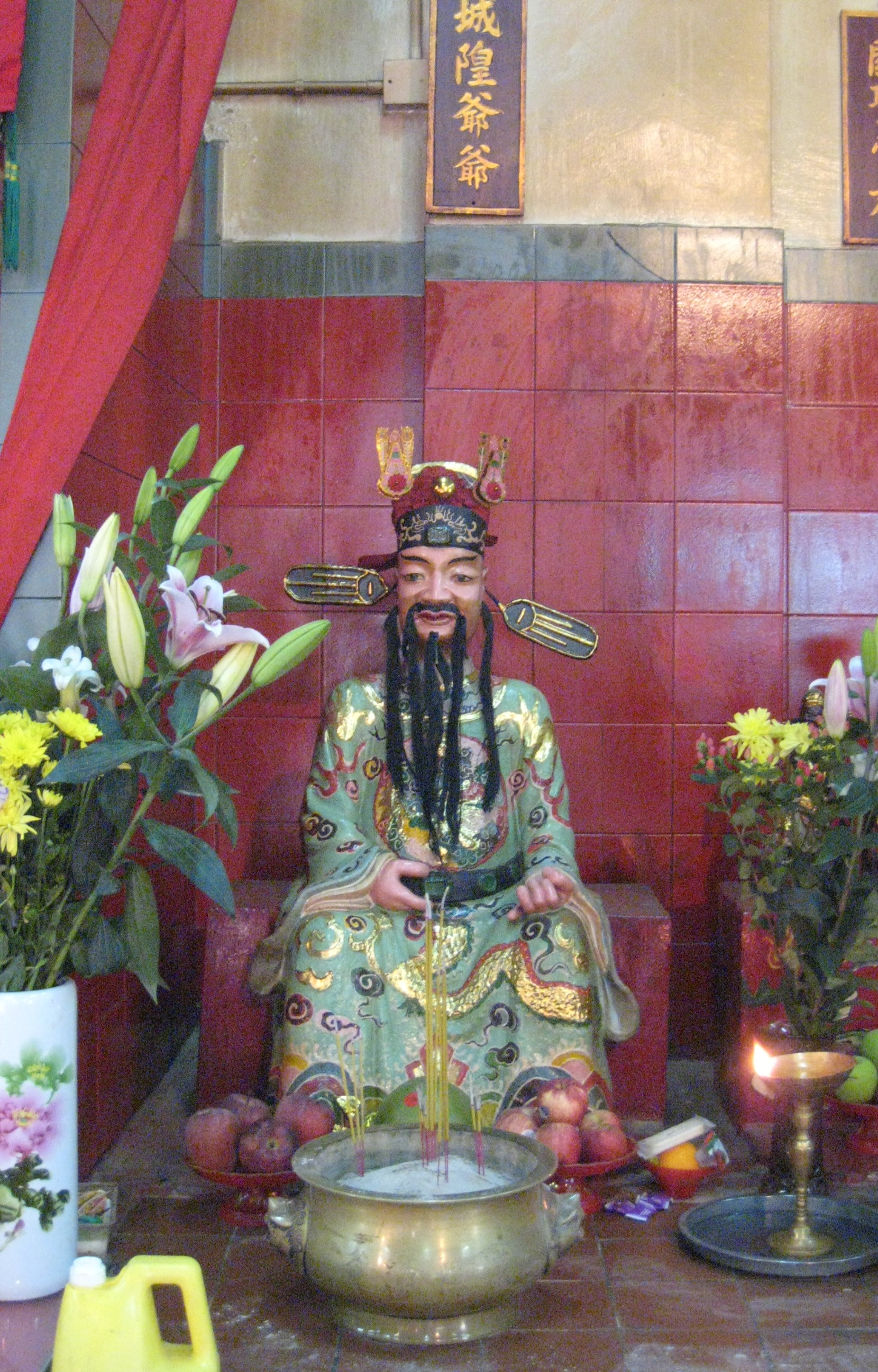 Statue of Chenghuang in Tin Hau Temple of Stanley